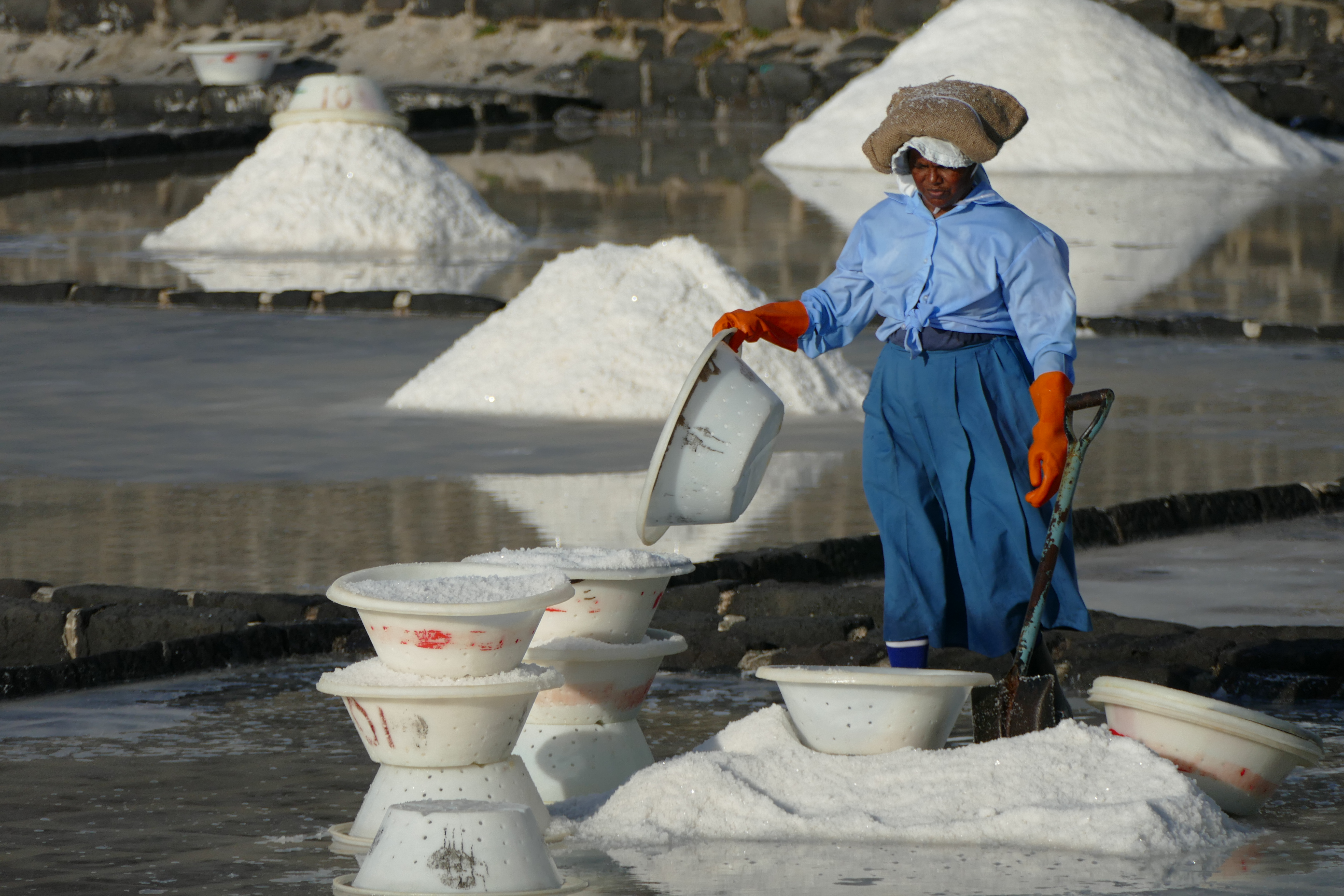 This is an image of "African people at work" from Mauritius